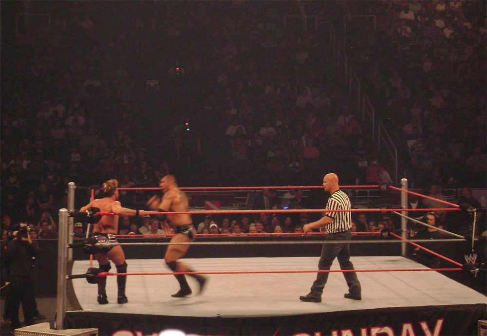 Chris Jericho vs. Batista at Cyber Sunday 2008 with Stone Cold Steve Austin as referee.